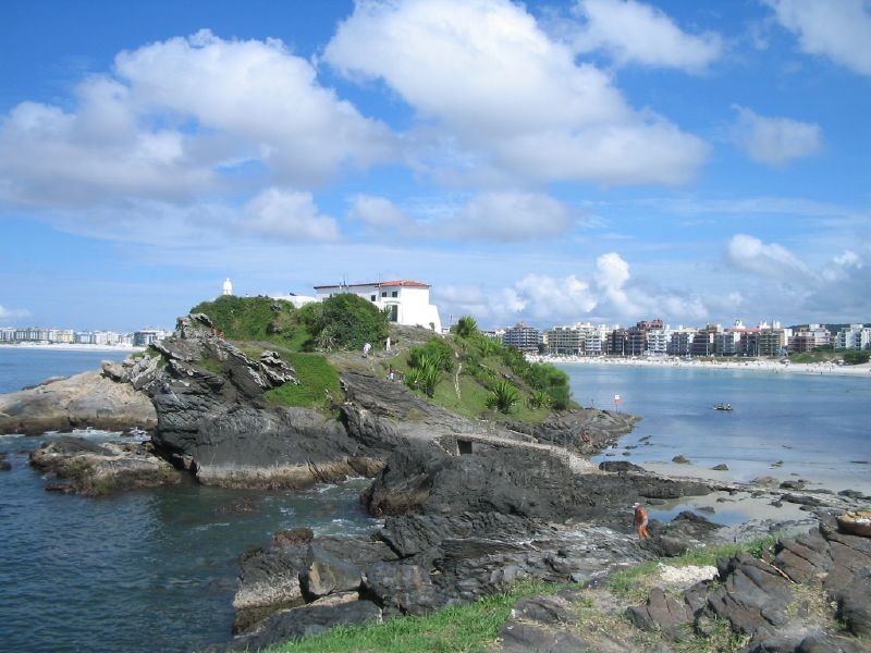 Sao Mateus Fort in Cabo Frio, Brazil